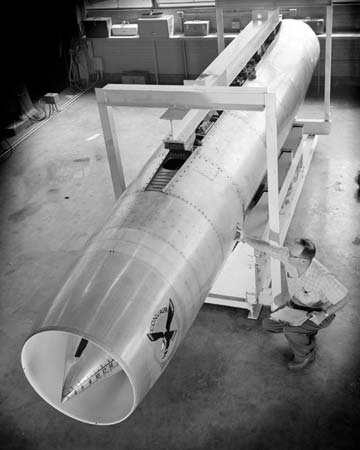 A General Electric J79 engine in a Cowl for the Convair B-58 bomber.